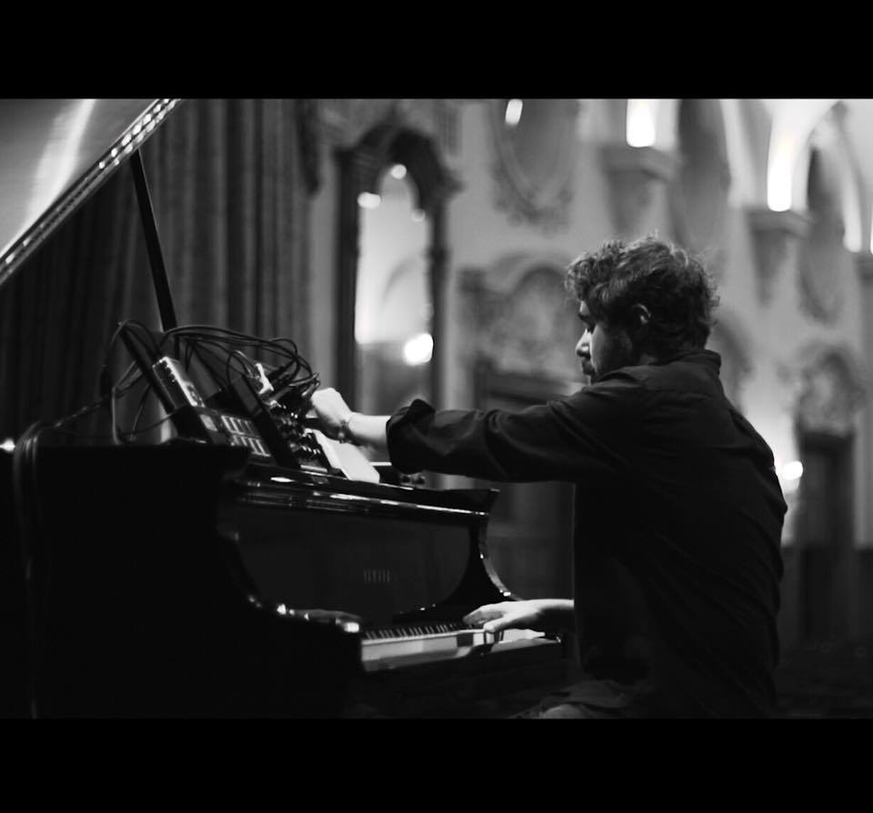 Federico Albanese in 2017, live at Montreux Jazz Festival